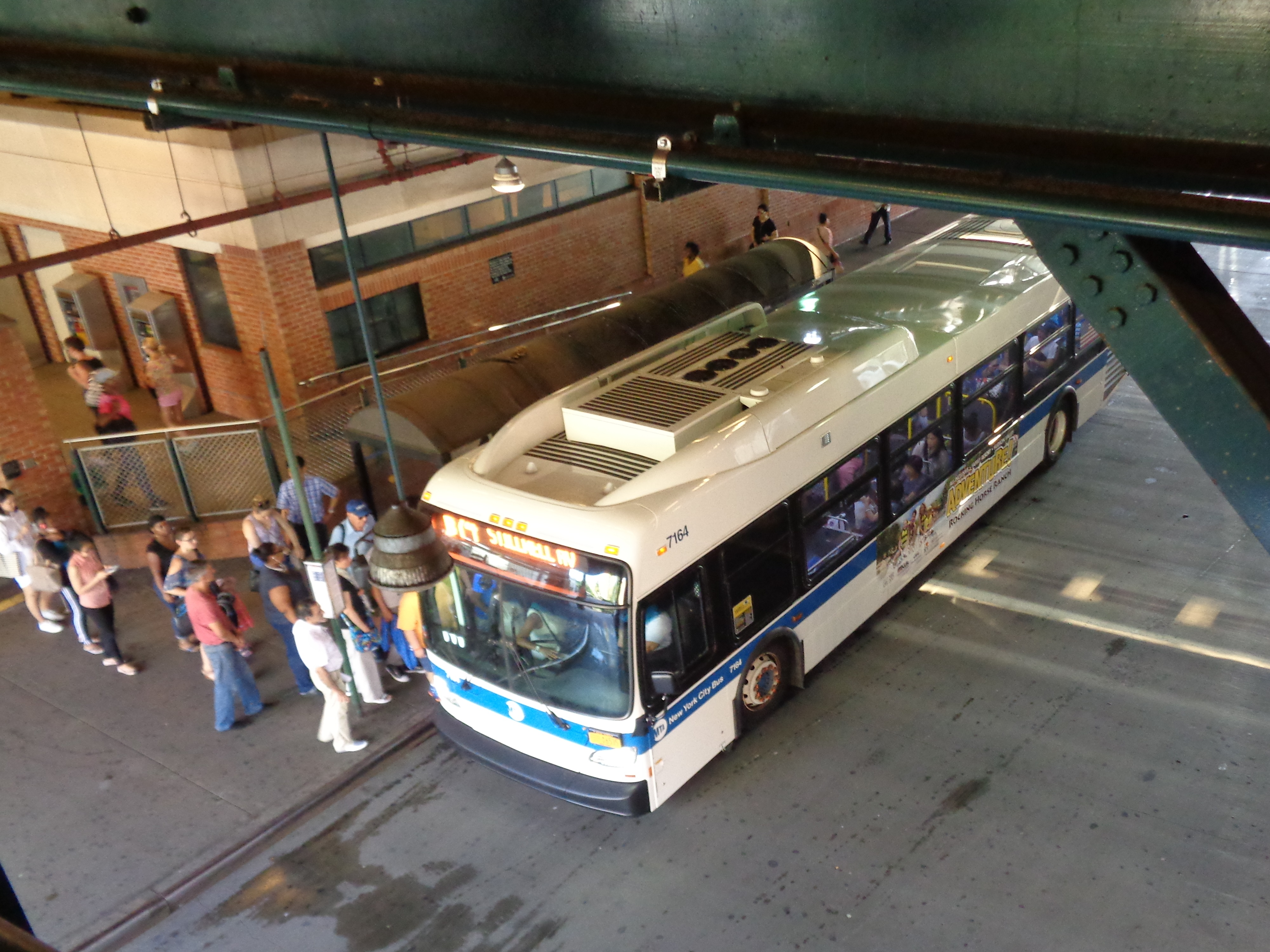 A Sea Gate-bound B74 bus picking up passengers at the Coney Island bus terminal underneath the Coney Island–Stillwell Avenue subway station in Coney Island, Brooklyn. Looking from an exit ramp on the N (Sea Beach Line) platform.